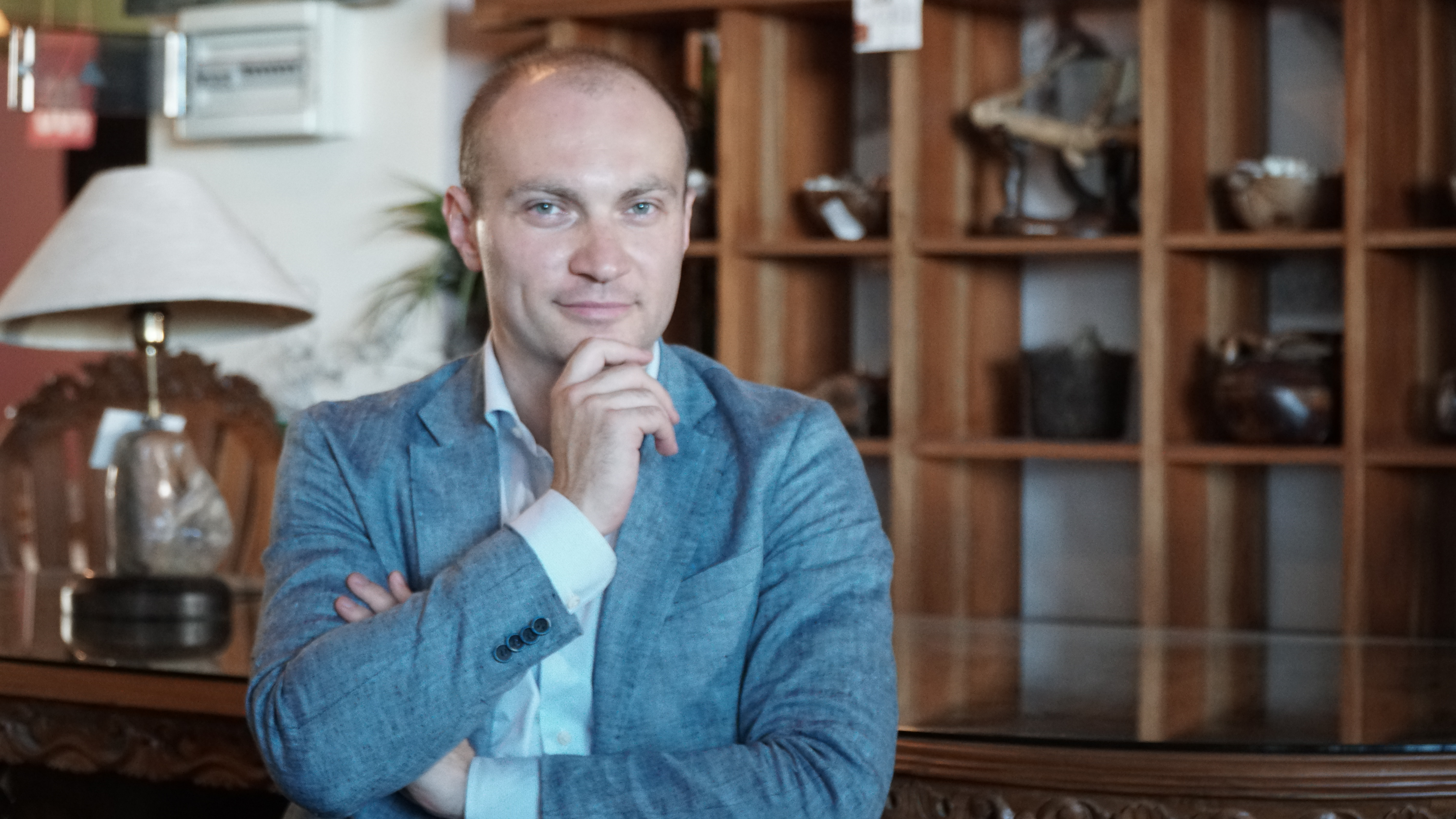 Ukrainian journalist, a lawyer, human rights activist, essayist, international columnist, political analyst and orientalist, as well as television and radio presenter. Polyglot.